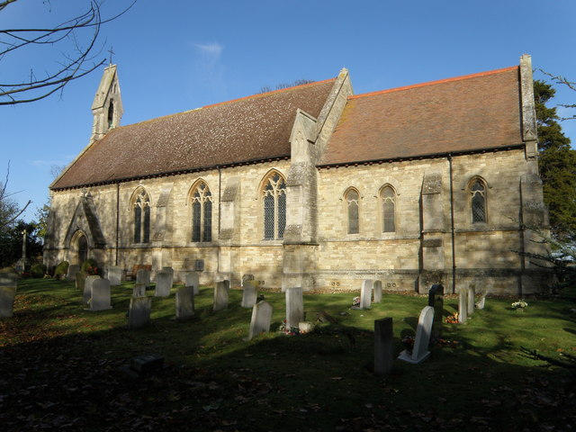 All Saints' parish church, Sawtry, Cambridgeshire (formerly Huntingdonshire), seen from the southeast